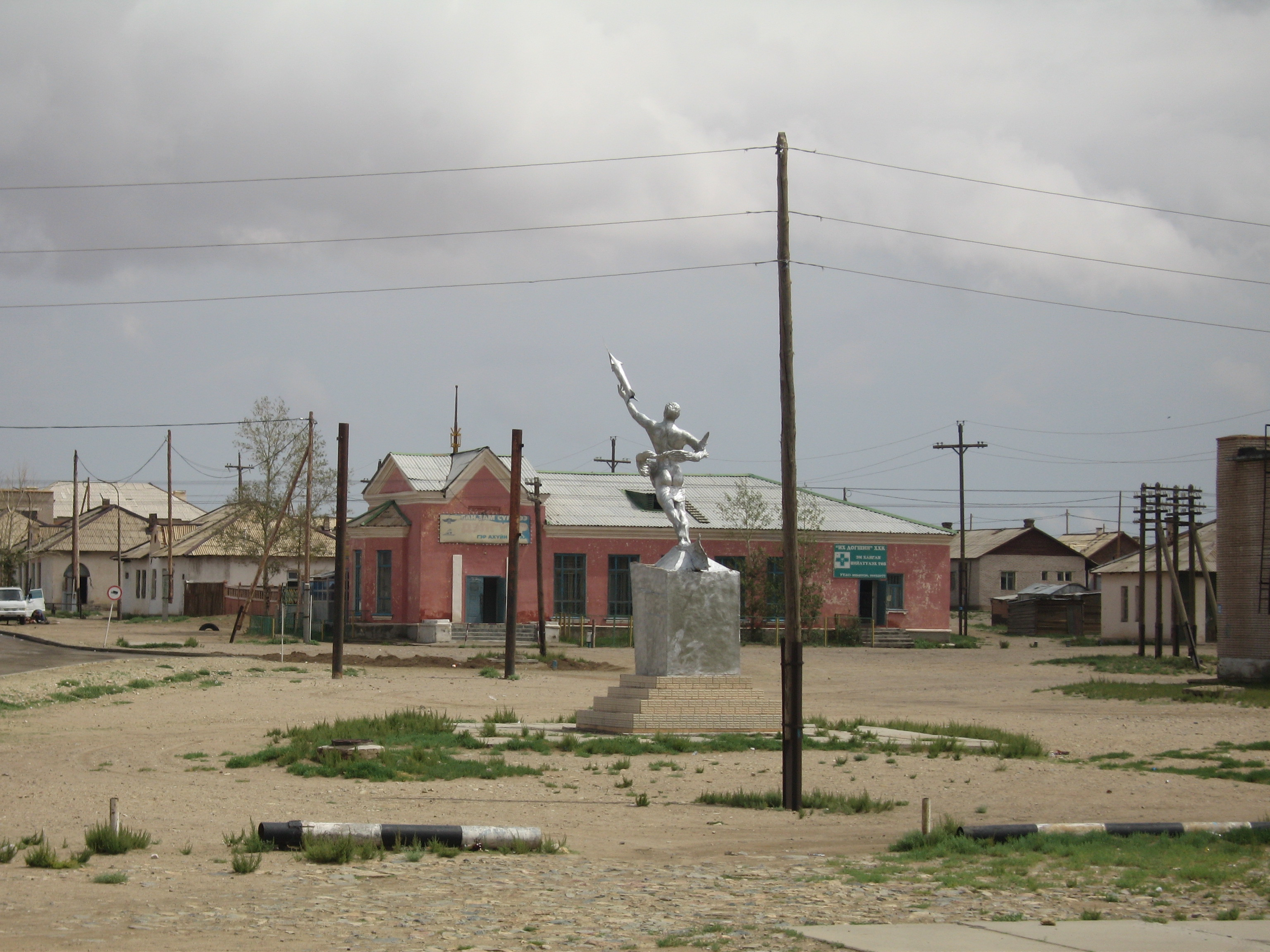 Choir, Mongolia. Picture taken from the train station.